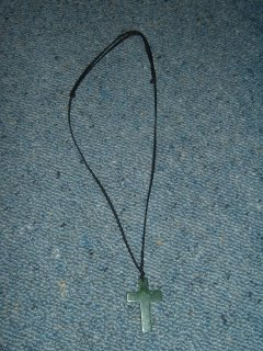 A greenstone necklace carved in the shape of a cross.